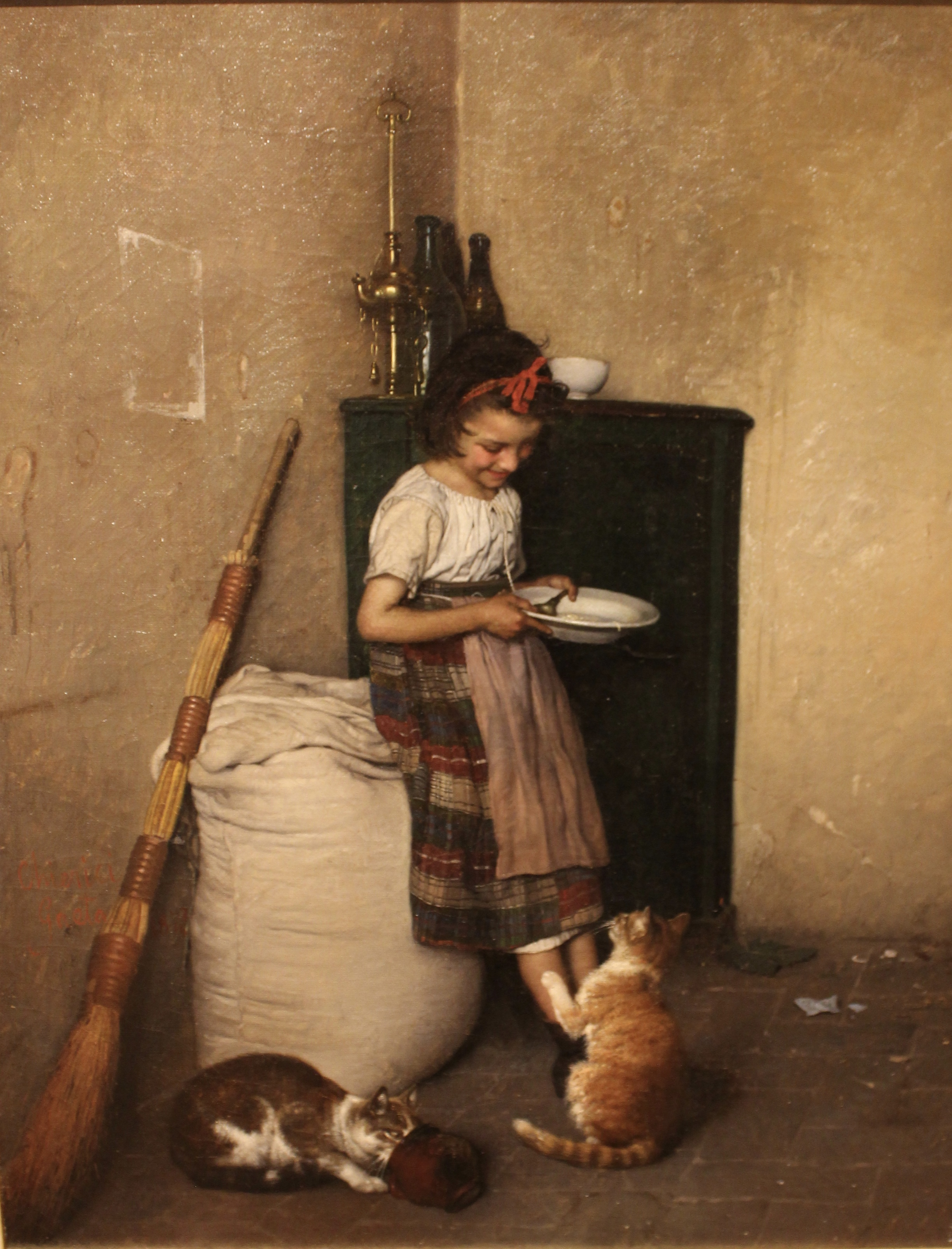 Photo of Child Feeding her Pets painting by Gaetano Chierici at the Widener University Alfred O. Deshong Collection. Photo taken in March 2019.